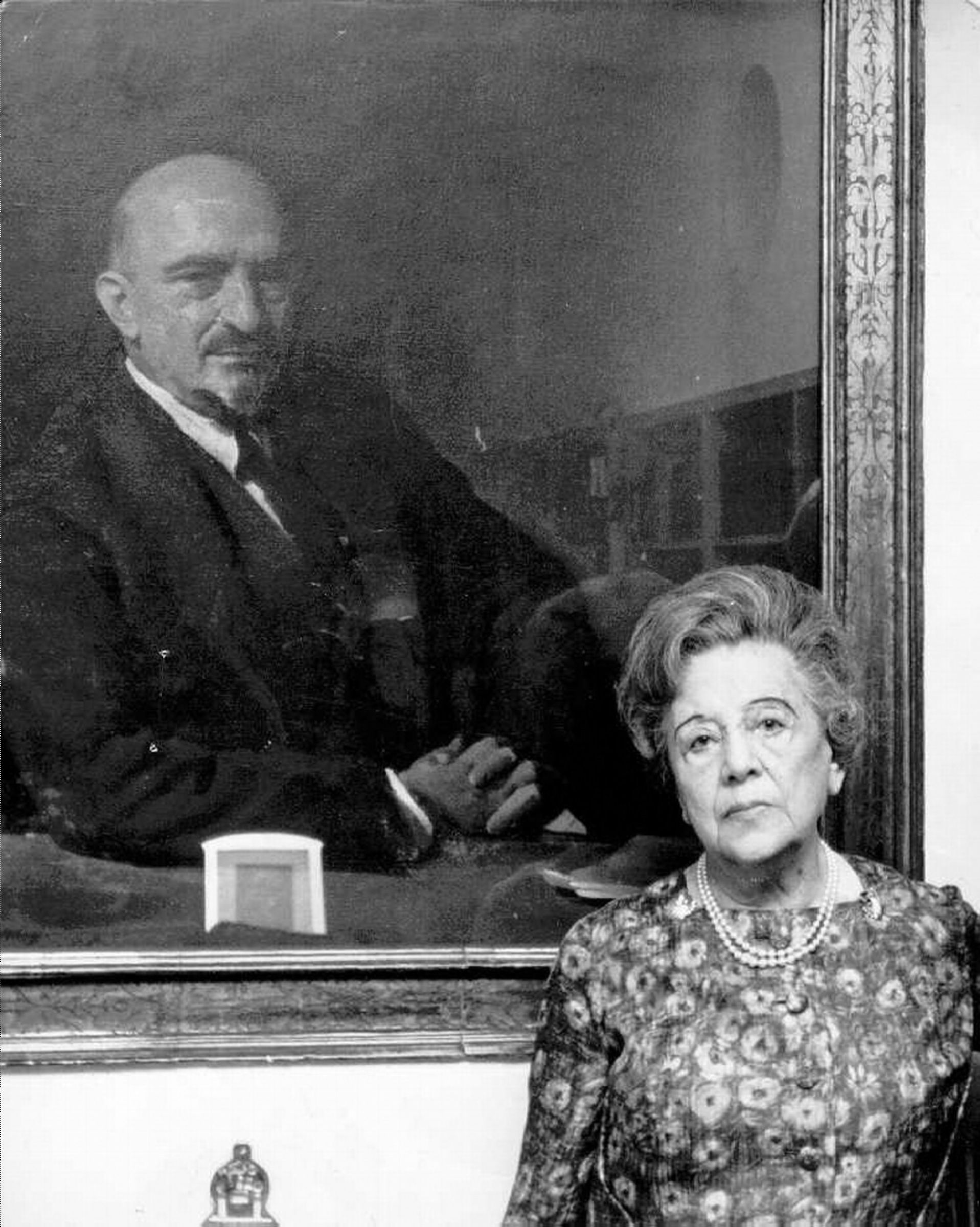 Vera Weizmann posing next to a picture of her husband, Chaim Weizmann, in her Rehovot home.